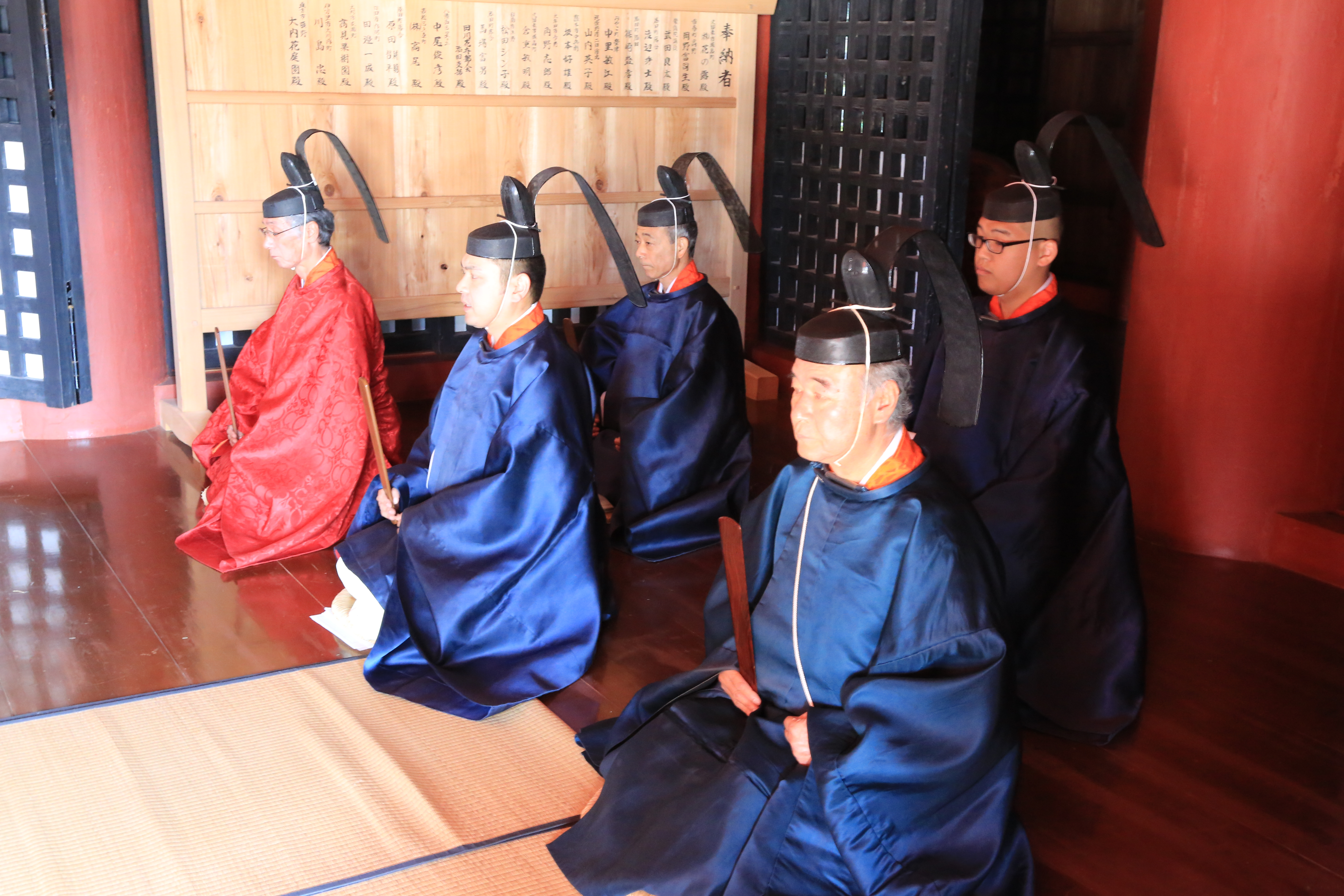 平成27年11月23日新嘗祭 於英彦山神宮奉幣殿